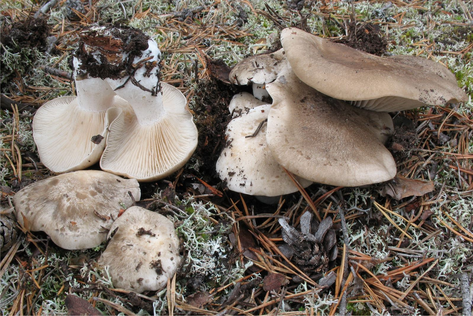 Lyophyllum shimeji (Kawam.) Hongo Location: Åmsele, Västerbotten, Sweden For more information about this, see the observation page at Mushroom Observer.